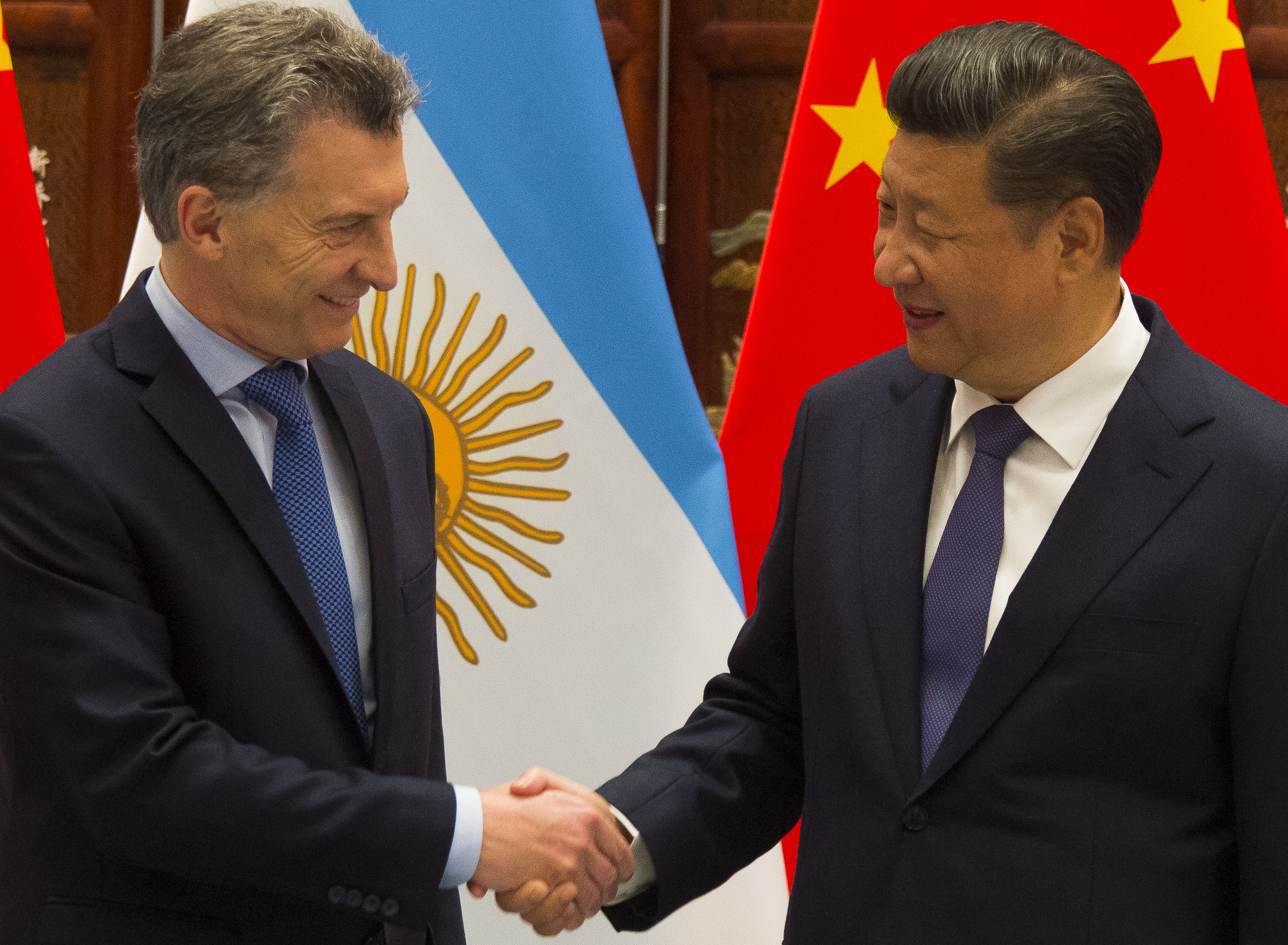 Argentina's president Mauricio Macri with the chinese president Xi Jinping